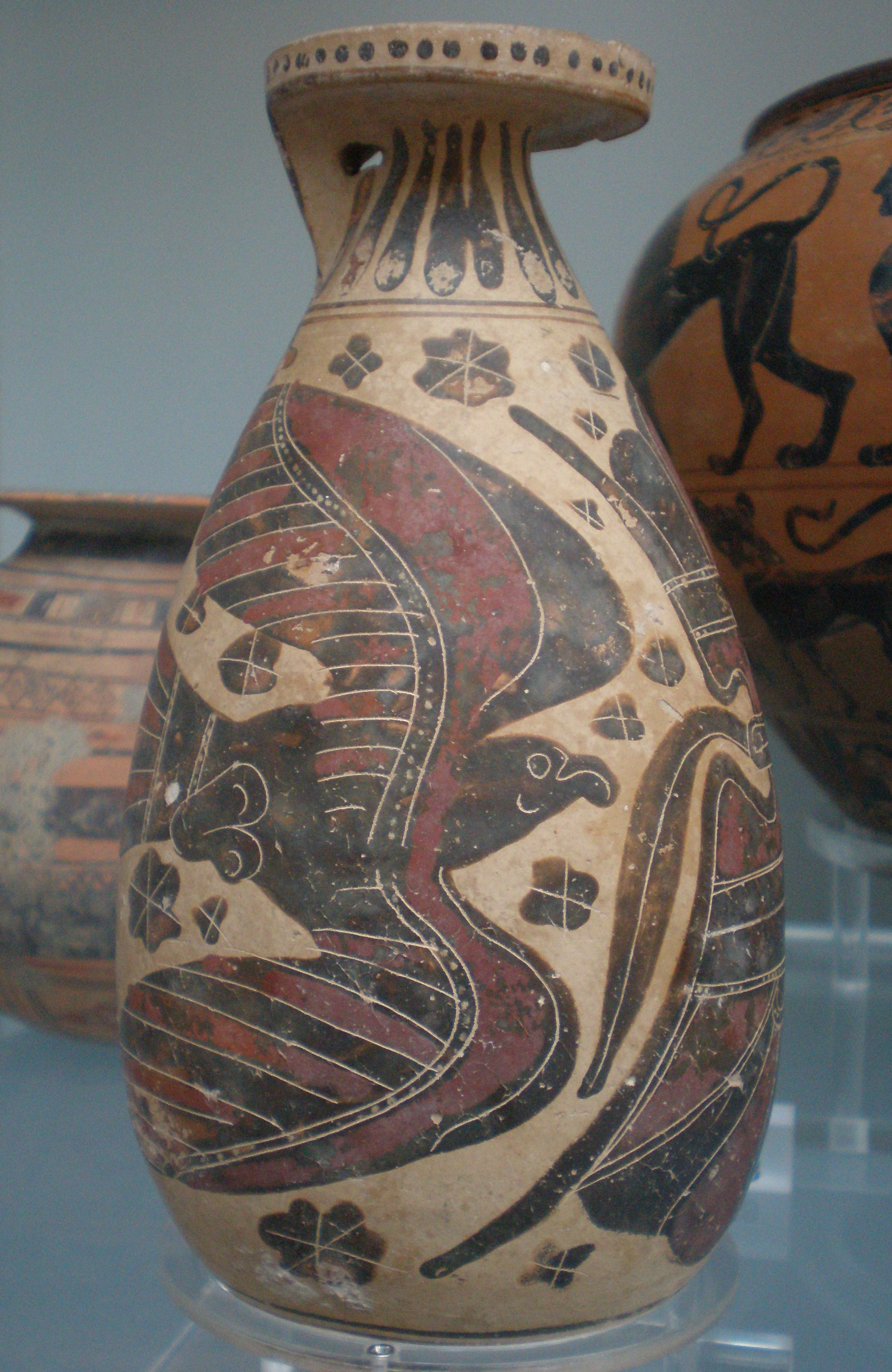 Oil Bottle/Alabastron Greece, Corinth 600BC Collection ID: C.2501-1910 This photo was taken as part of Britain Loves Wikipedia in February 2010 by David Jackson.